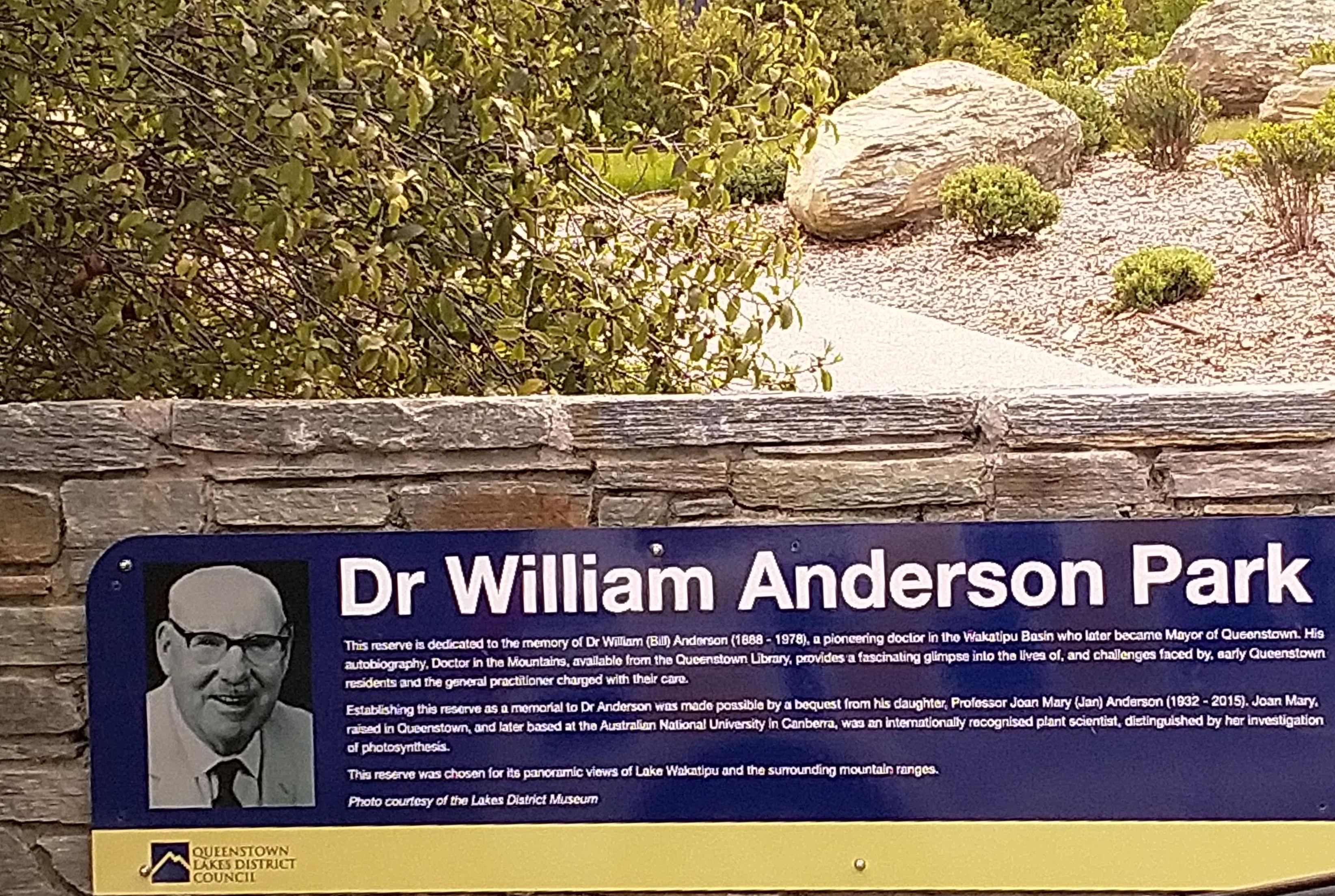 A photo of the information at the entrance to the park showing Dr Anderson